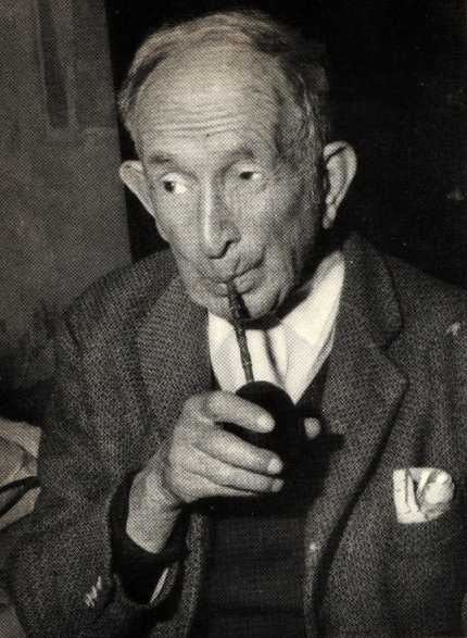 Juan de Dios Filiberto (1885-1964). Tango musician. Argentina.